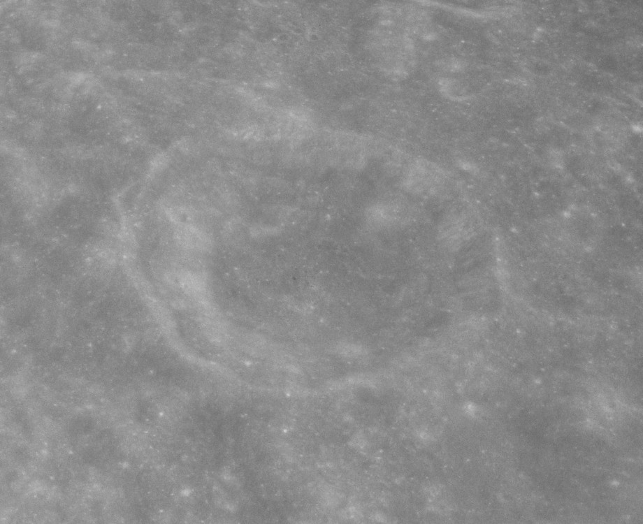 Alhazen, on the moon.